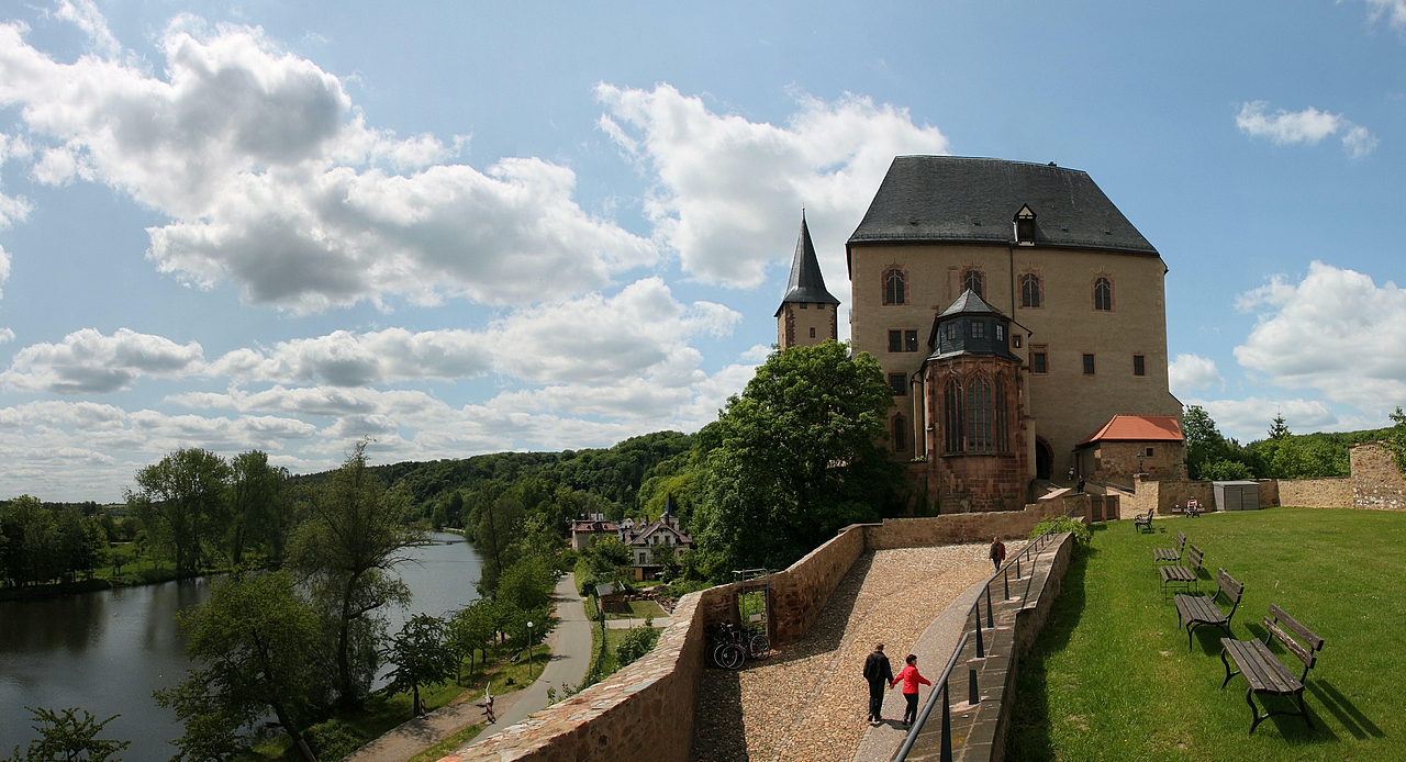 Rochlitz Castle.